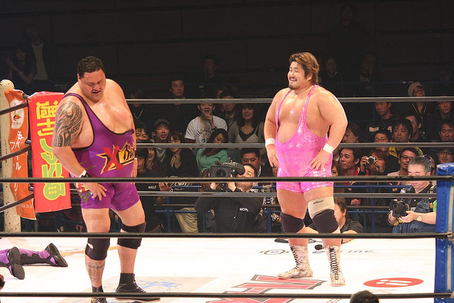 Bono-chan and Yoshie-chan